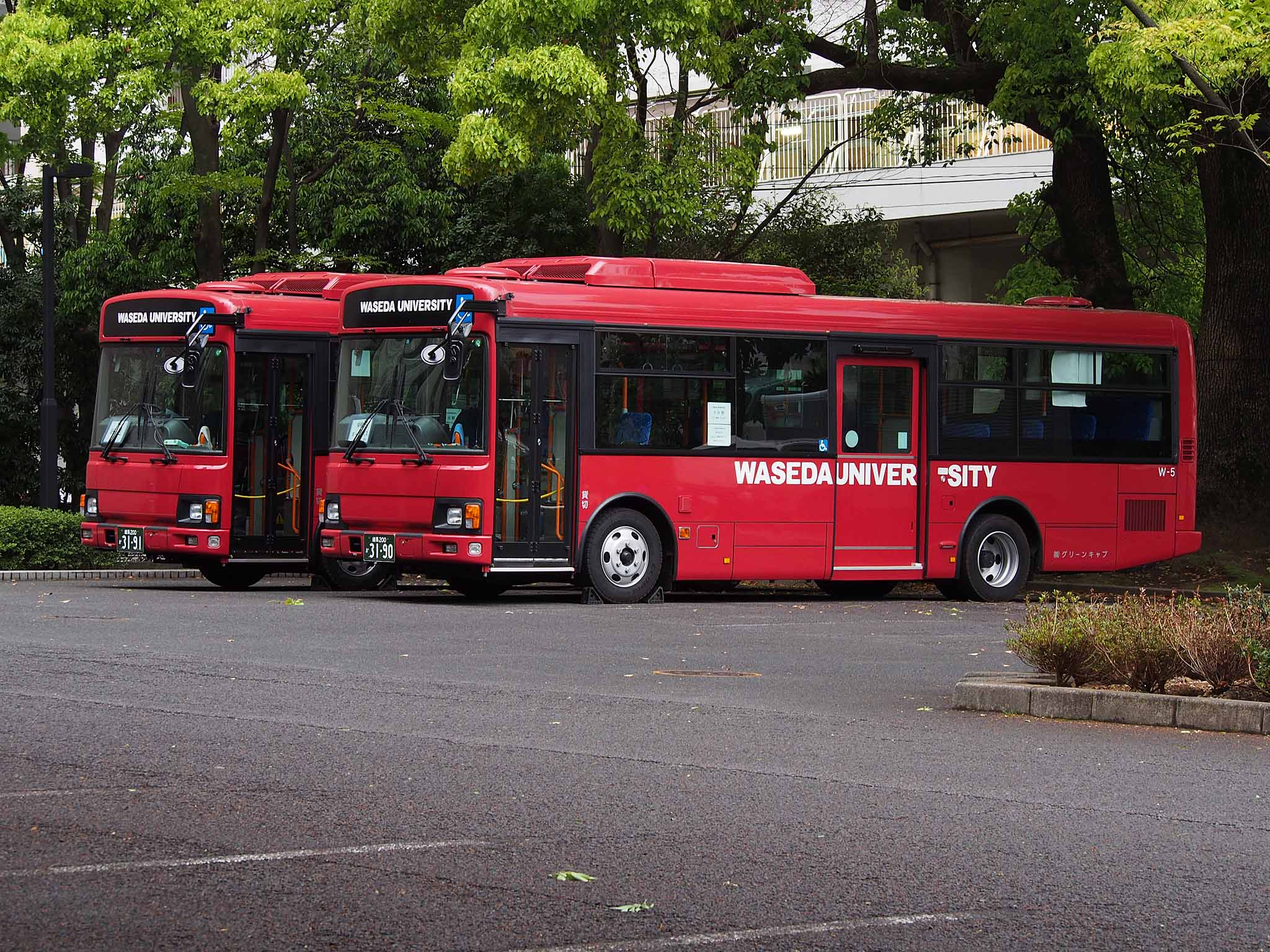 Fleet of Green Cab, for campus shuttle bus of Waseda University, between Waseda Head Campus and Nishi-Waseda Campus. Model: Hino Rainbow II KR290J1 License plate W-5: TKN200 KA3190 W-6: TKN200 KA3191 Place: Waseda University Okuma Kaikan Bldg, Shinjuku Ward, Tokyo Japan (from outside)